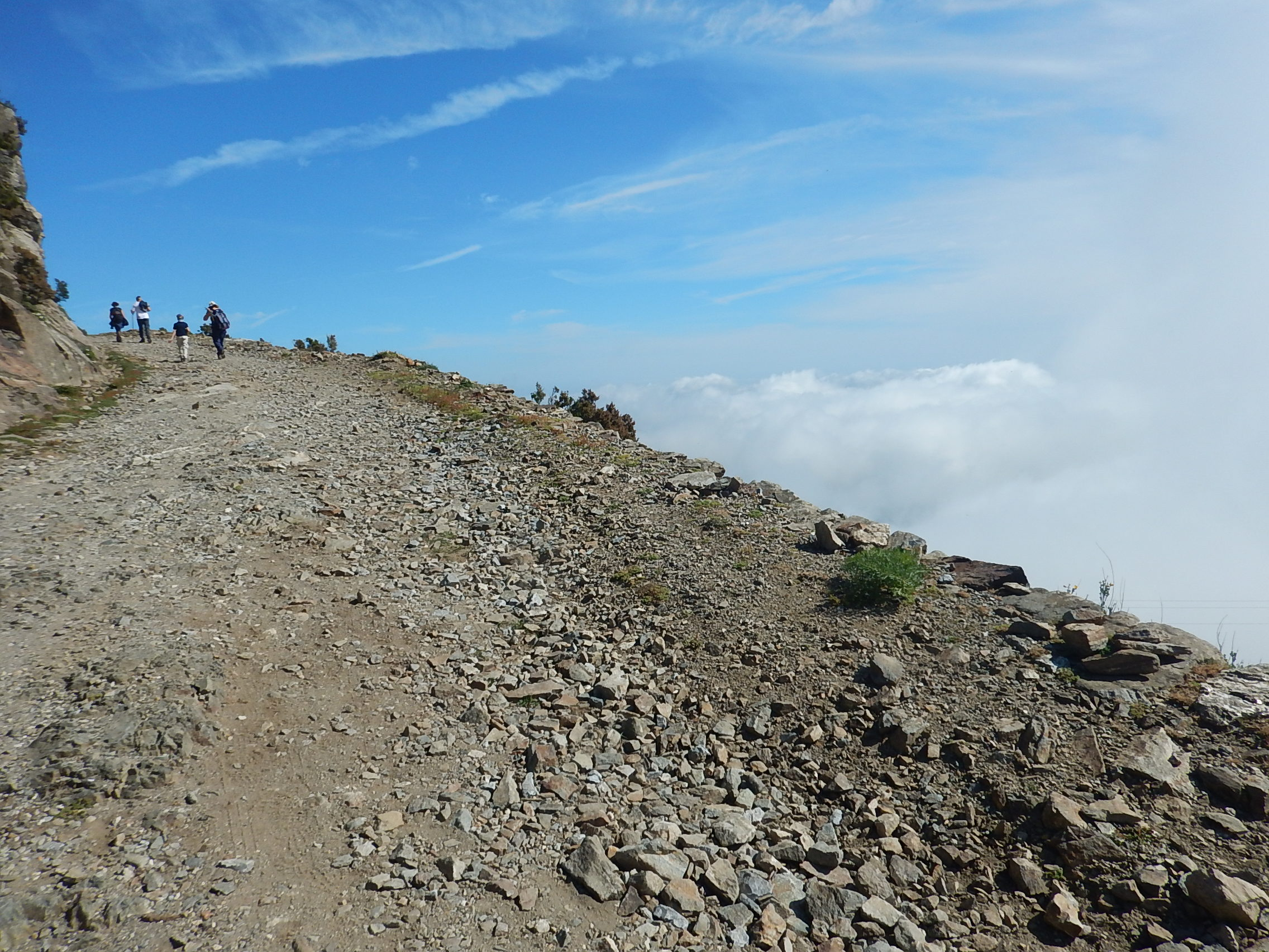 the ancient path Dorsale dei Peloritani mountains in Sicily runs at an height of 1000 m on the average.